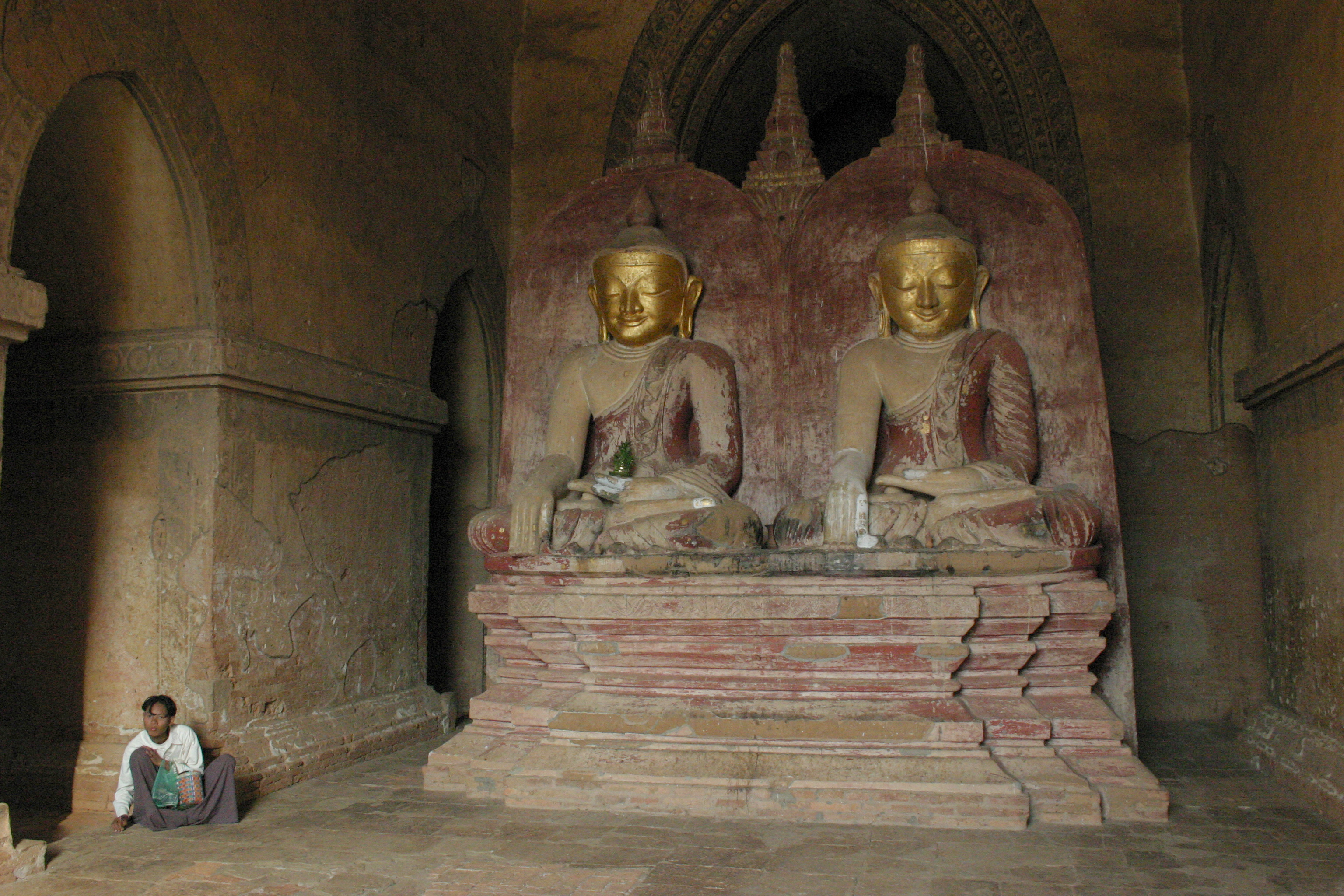 Dhammayangyi temple, Bagan, Myanmar. Buddha-Statues; possibly actual Buddha Gautama and coming fifth Buddha Metteya.